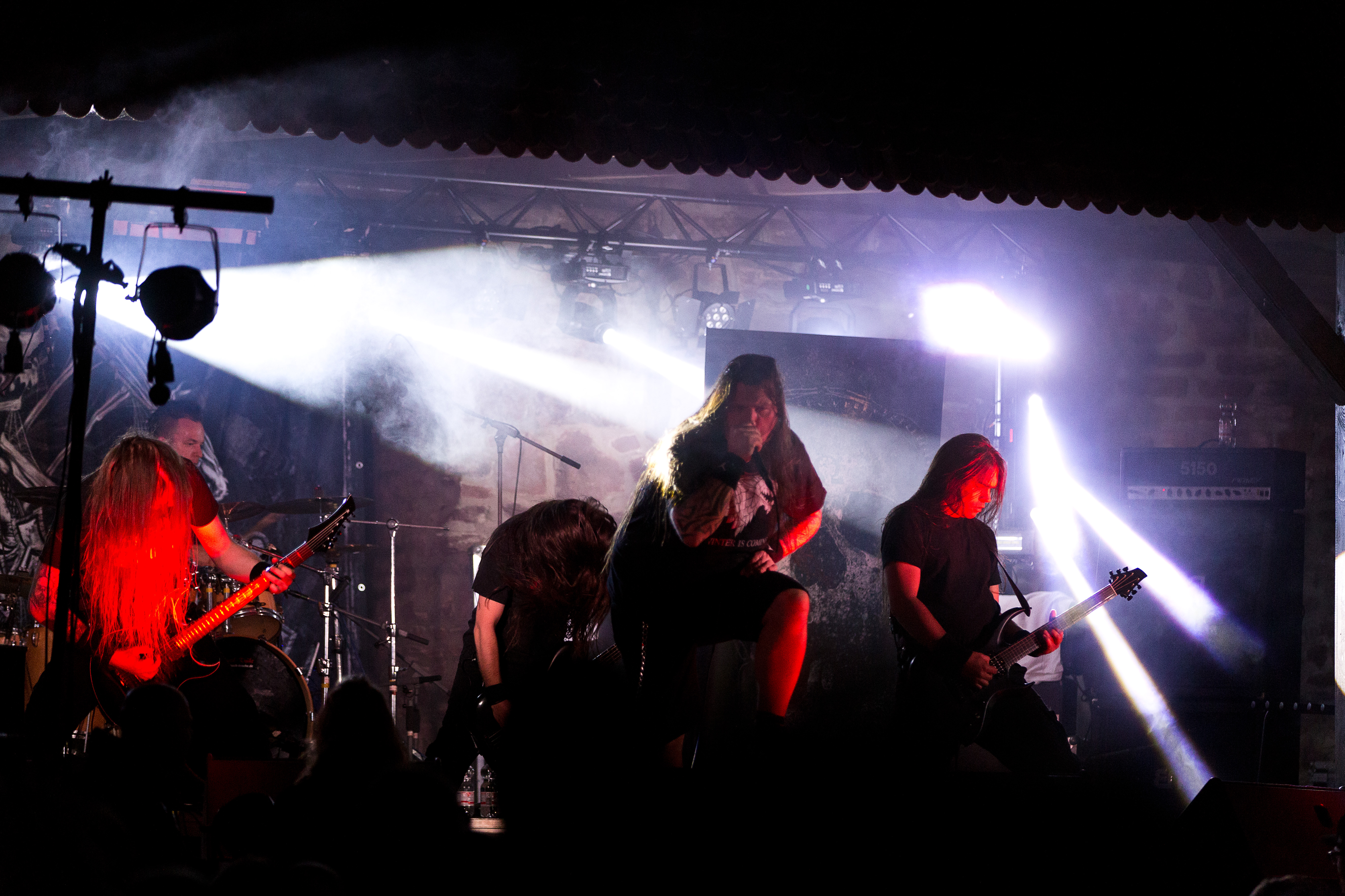 The Italian dark metal band Graveworm at the Dark Troll Open Air 2016 in Bornstedt/Germany.